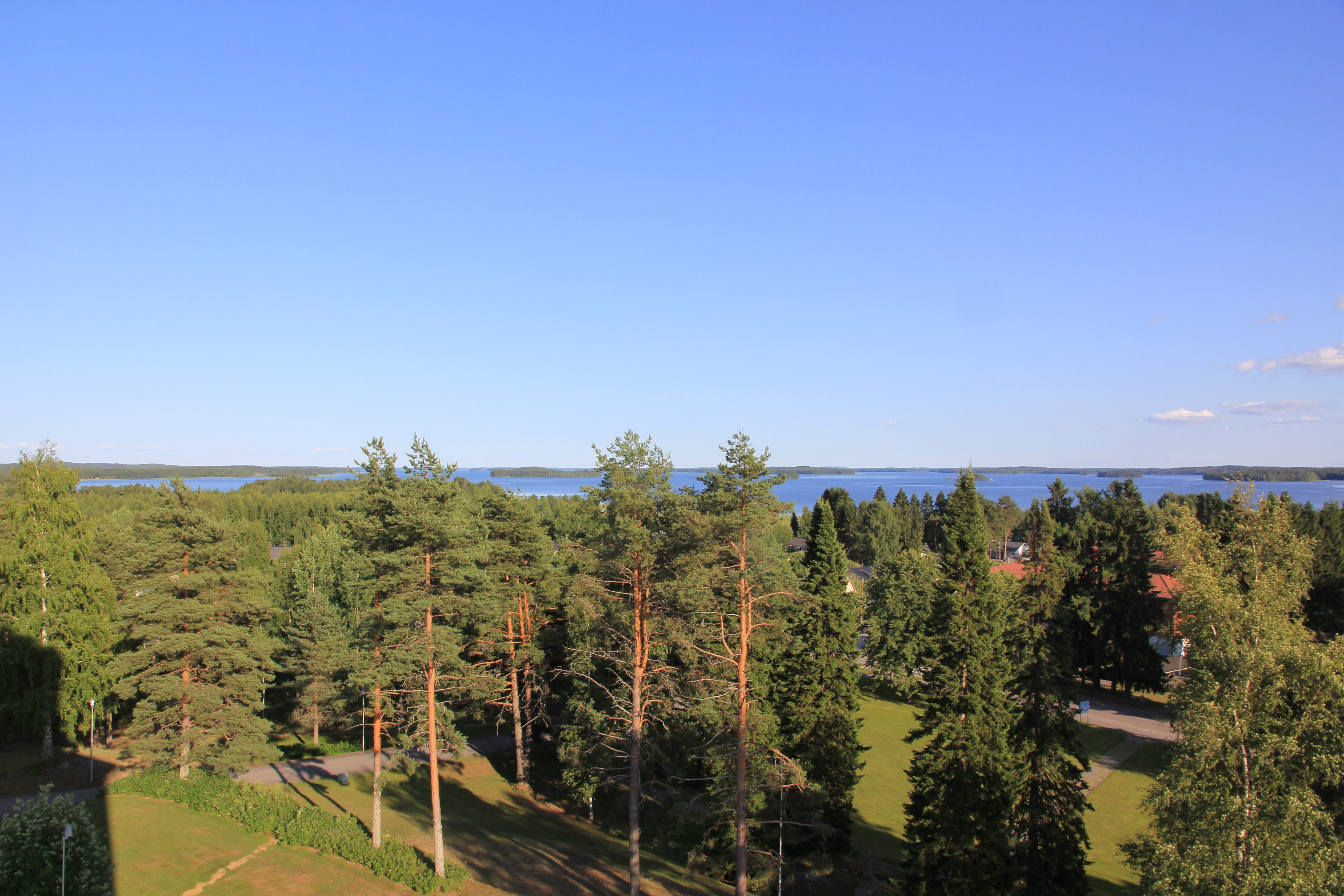 Kerimäki photographed from the church bell tower towards south. Puruvesi lake, part of Saimaa.